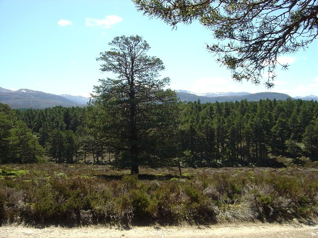 Abernethy Forest - Scots Pine. Scots Pine with the Cairngorms in the background. Taken May 2004 - a beautiful late spring day.